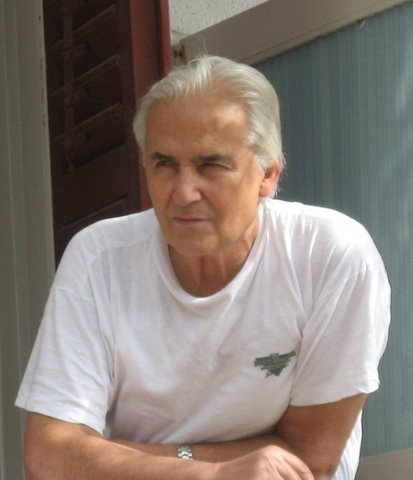 Srbislav Bukumirović